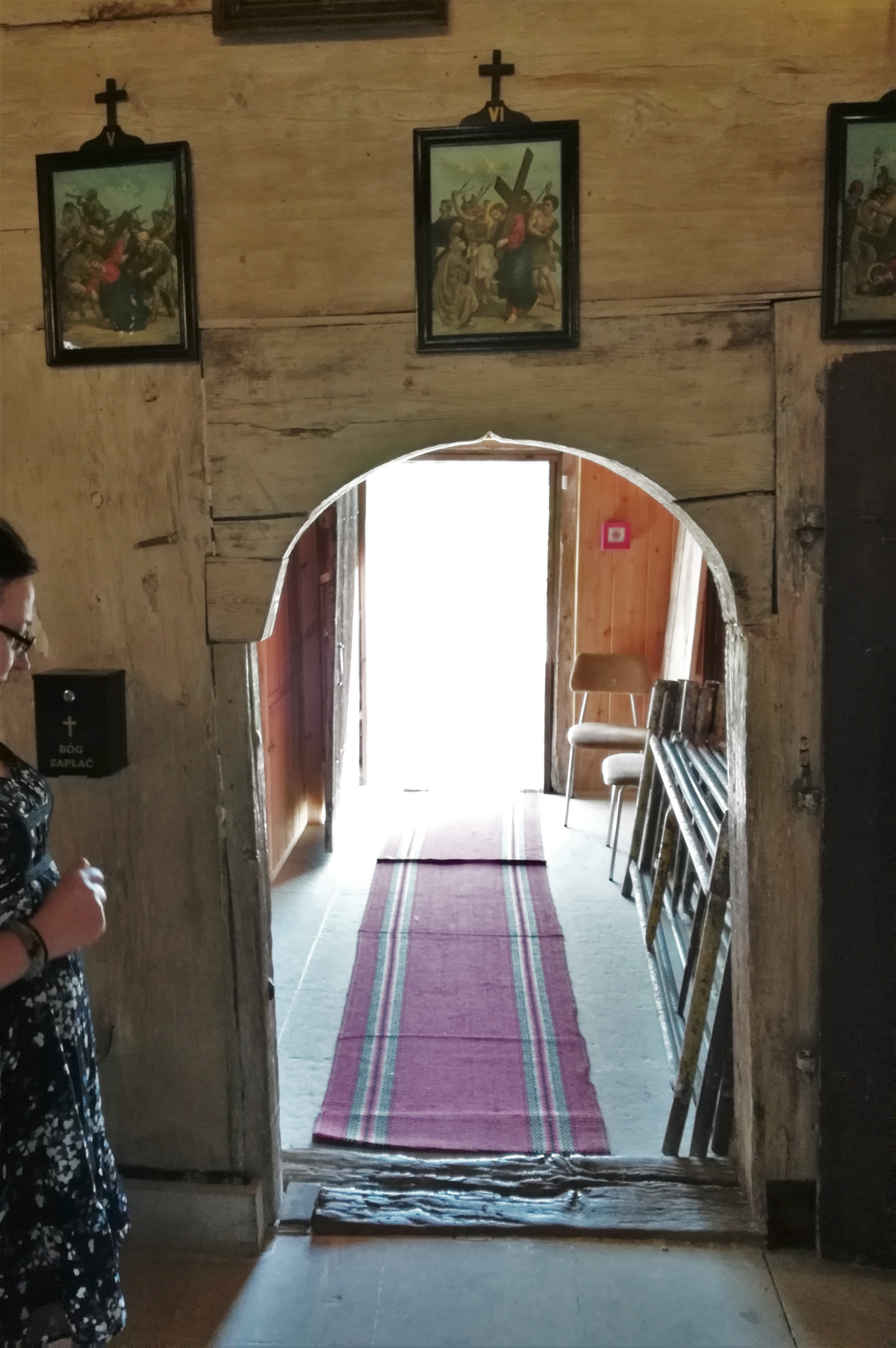 Church of Saint. Stanisław Biskupa in Chotelek Zielony - a late-Gothic wooden portal of the ogee type.